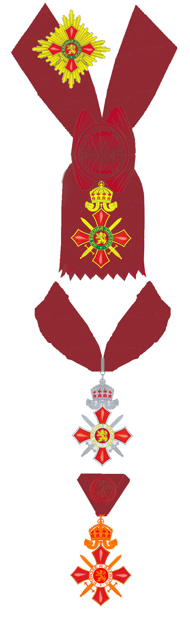 The insignia of the modern Bulgarian Order of Military Merit